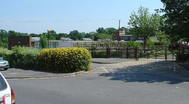 Picture of Manor Field Primary School, Burgess Hill.